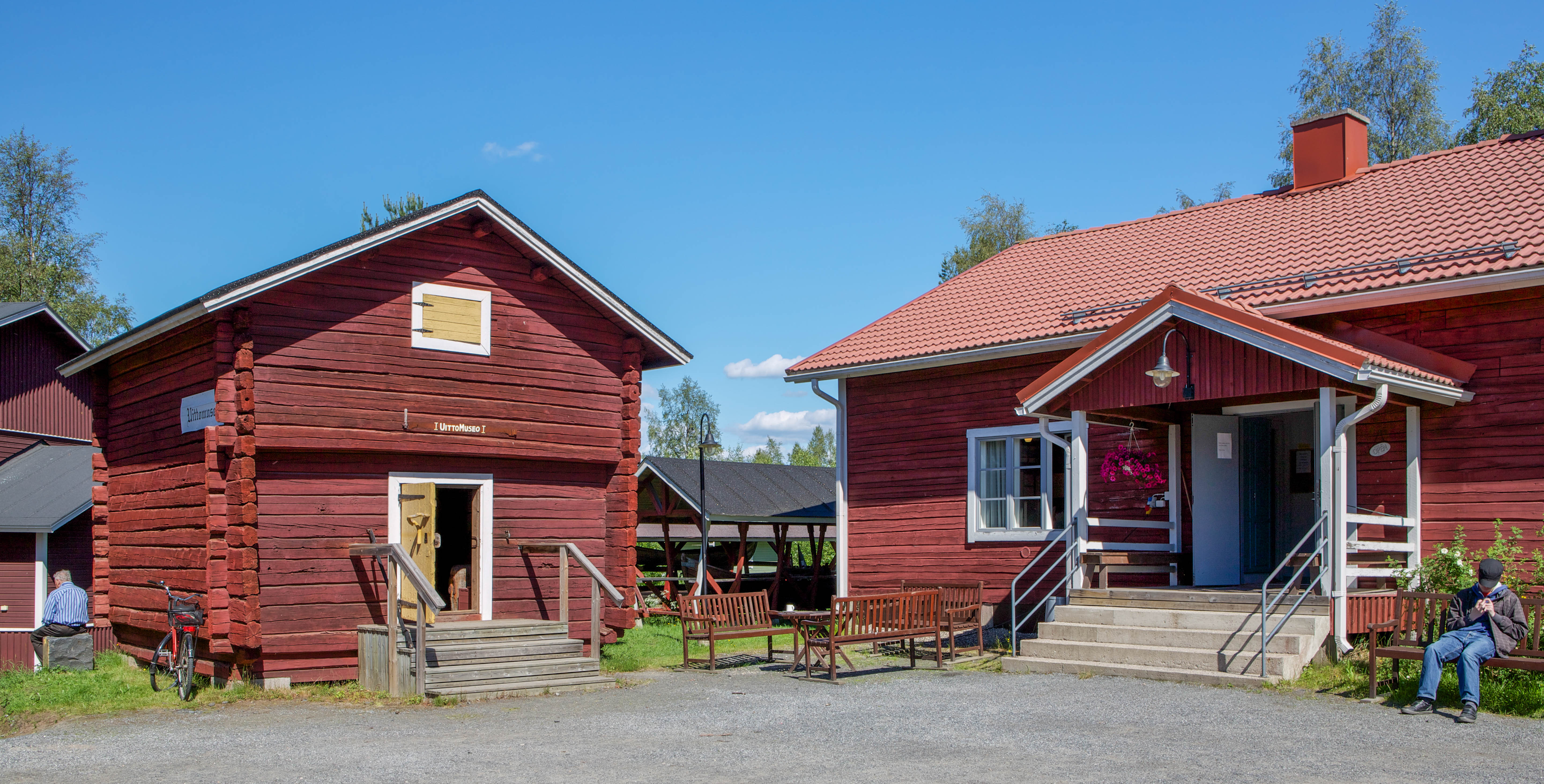 Museum of Log driving in Ii, Finland